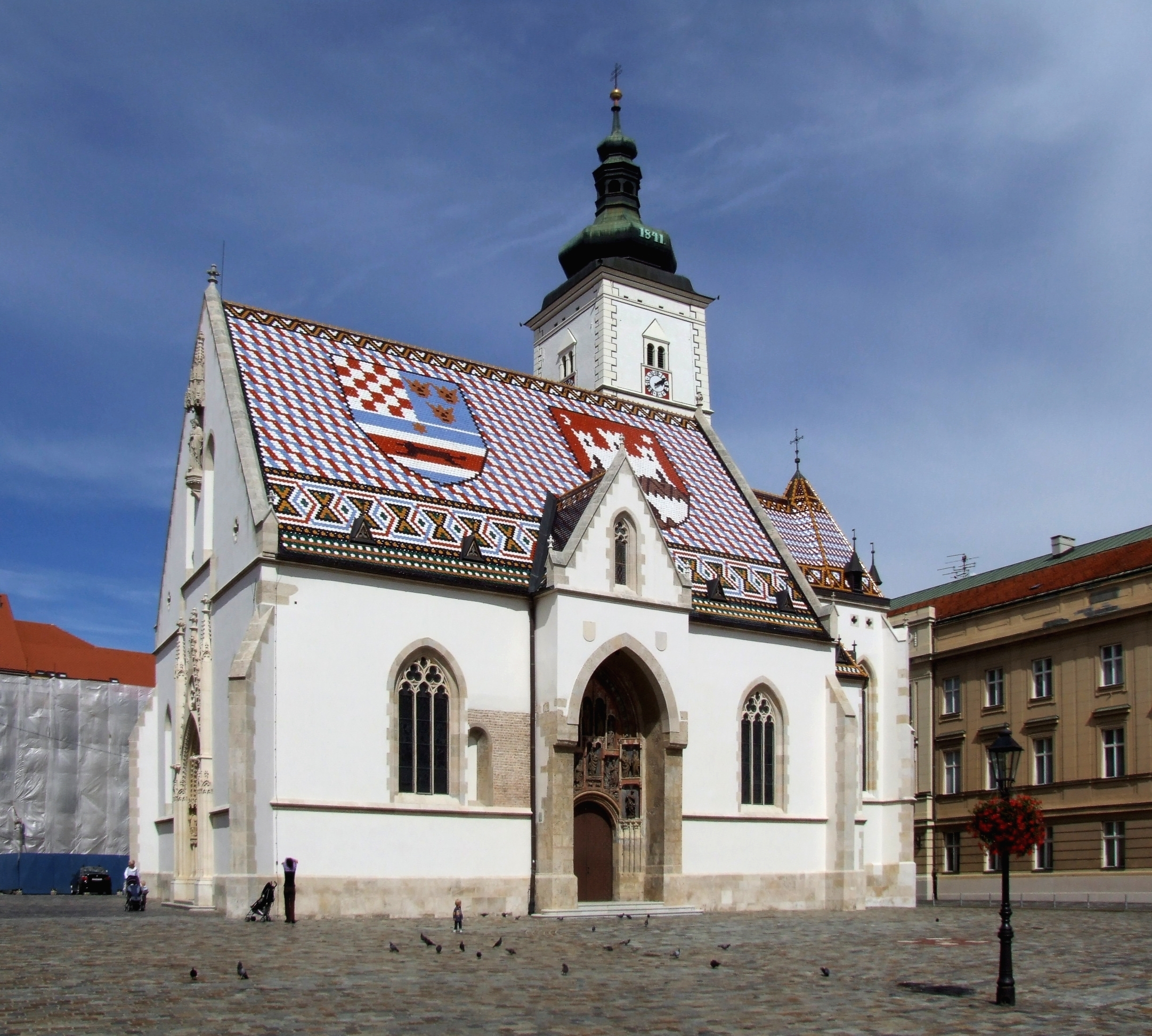 St. Mark's Church, Zagreb